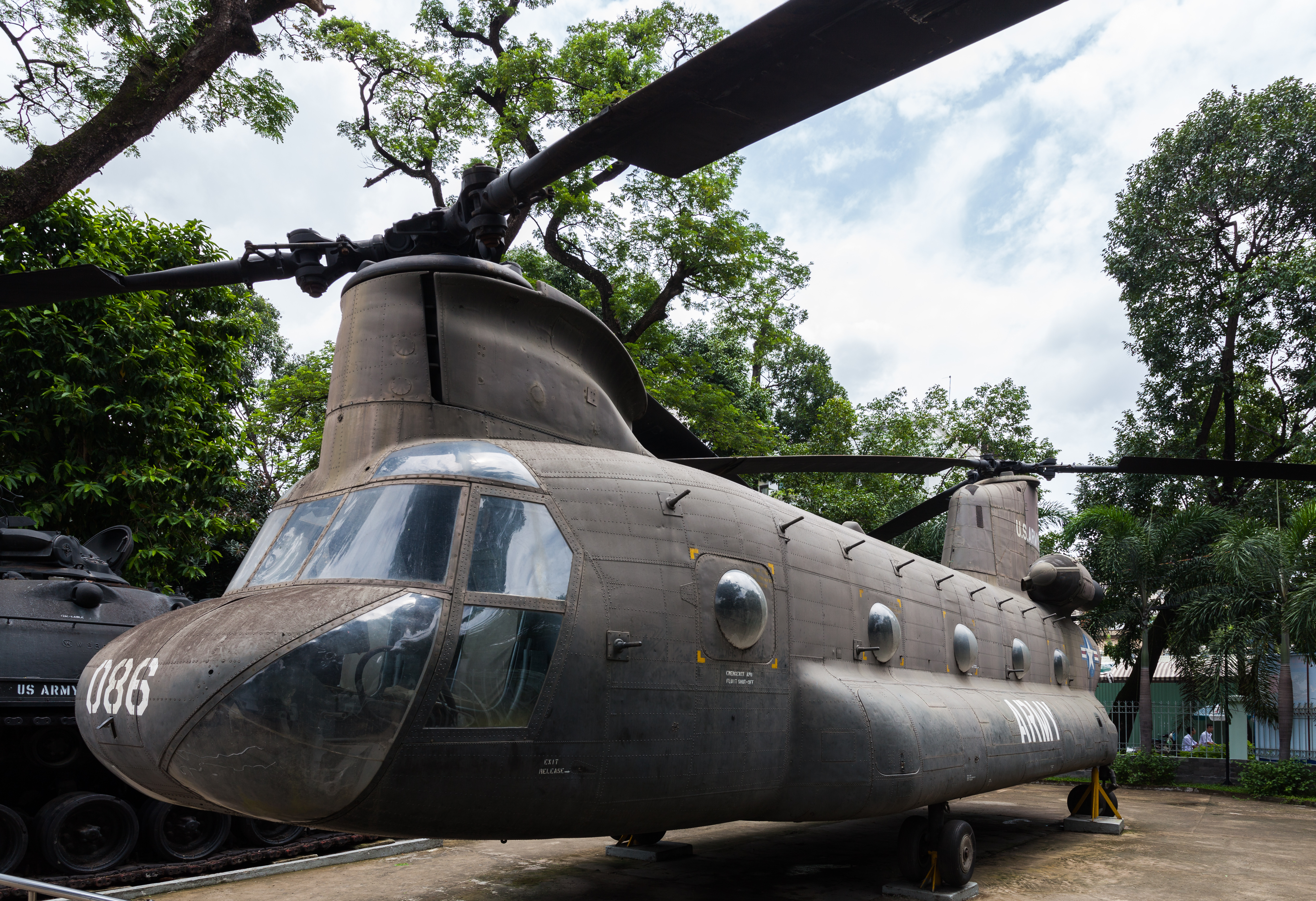 CH-47 Chinook Helicopter, War Remnants Museum of Vietnam War, Ho Chi Minh City, Vietnam